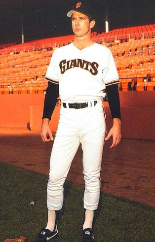 Professional baseball player Mike Krukow